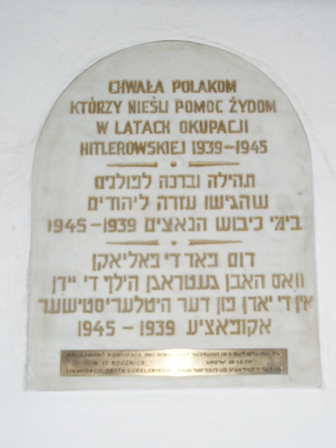 Chewra Nosim Synagogue in Lublin